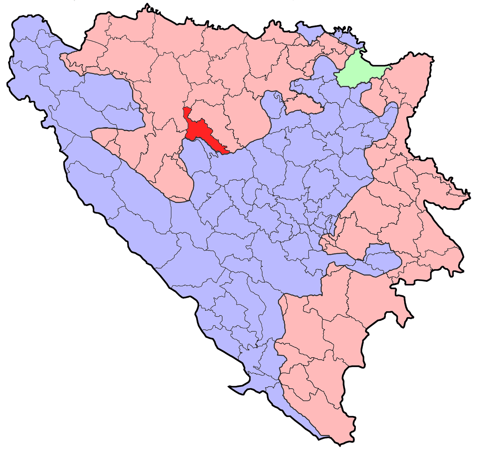 Location of Kneževo municipality in Bosnia and Herzegovina.